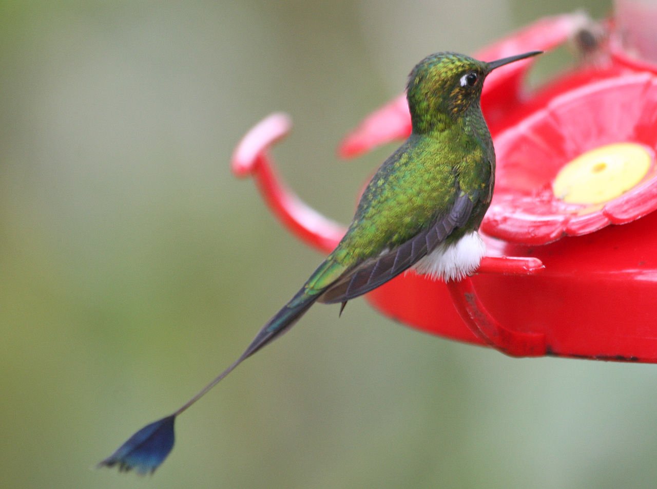 A male Booted racket-tail hummingbird (Ocreatus underwoodii melanantherus) photographed by Tad Boniecki at the Bellavista cloudforest resort in Ecuador, February 2007.